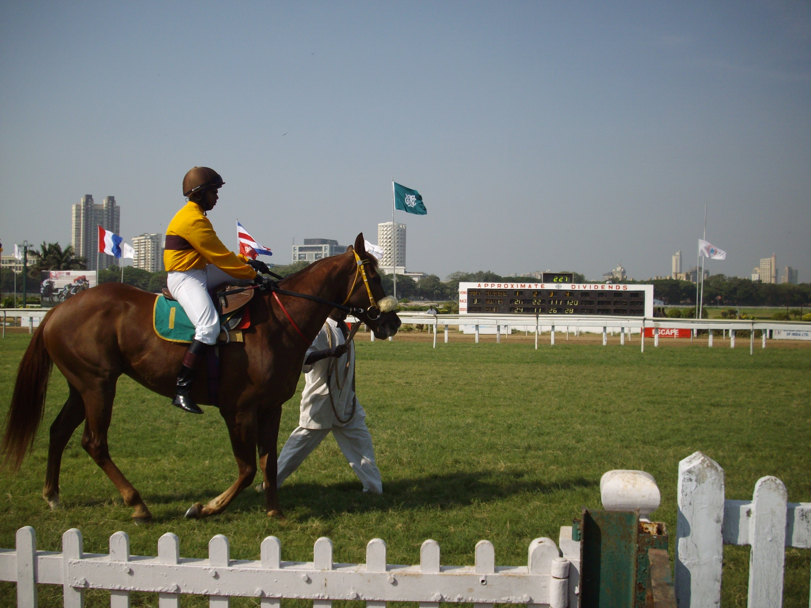 A fractious horse being led to the starting gates.